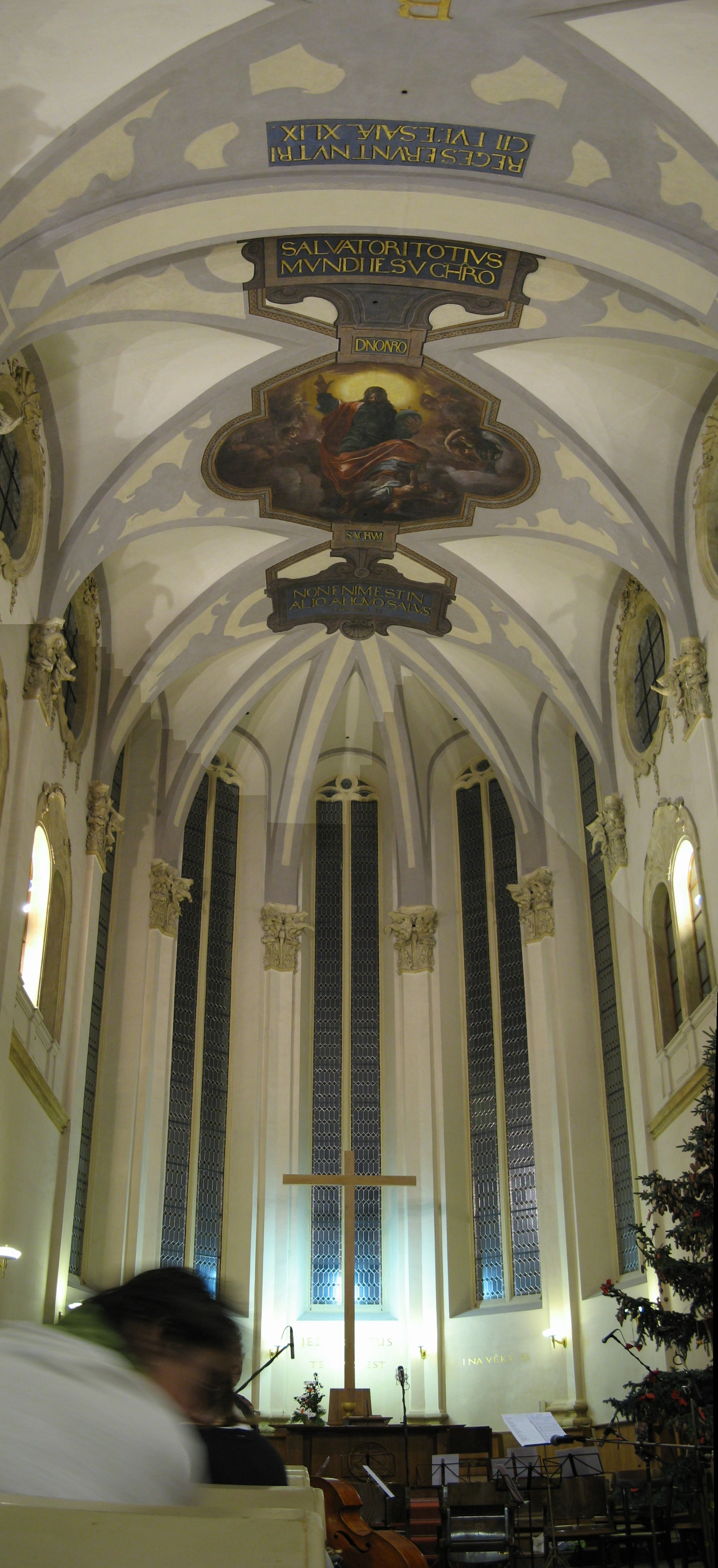 Church of St. Salvator in Old Town in Prague, Salvátorská street.